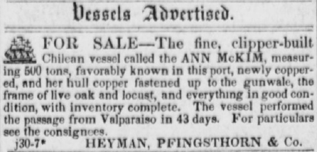 Ann McKim ship for sale from Daily Alta California, Volume 1, Number 27, 30 January 1850 — Page 3 Advertisements Column 2